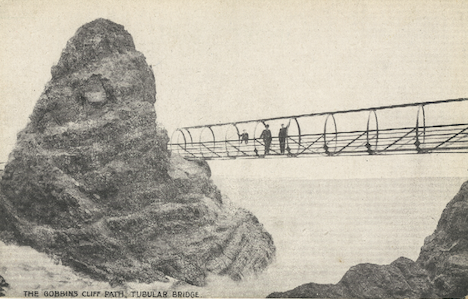 Picture of the old Tubular Bridge at The Gobbins